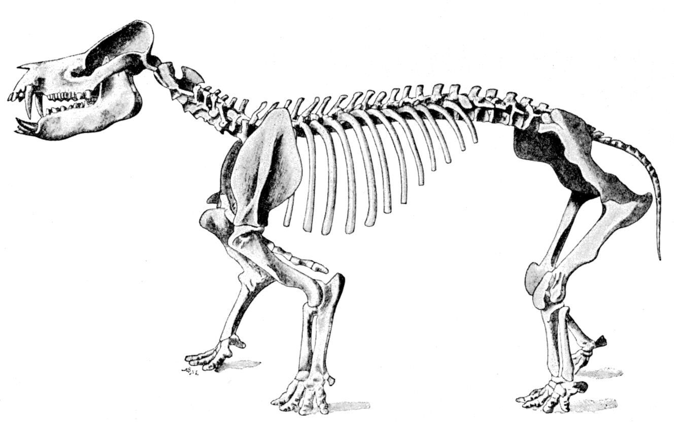 Fig. 115.—Skeleton of Coryphodon radians. × 1⁄10. (After Osborn.)